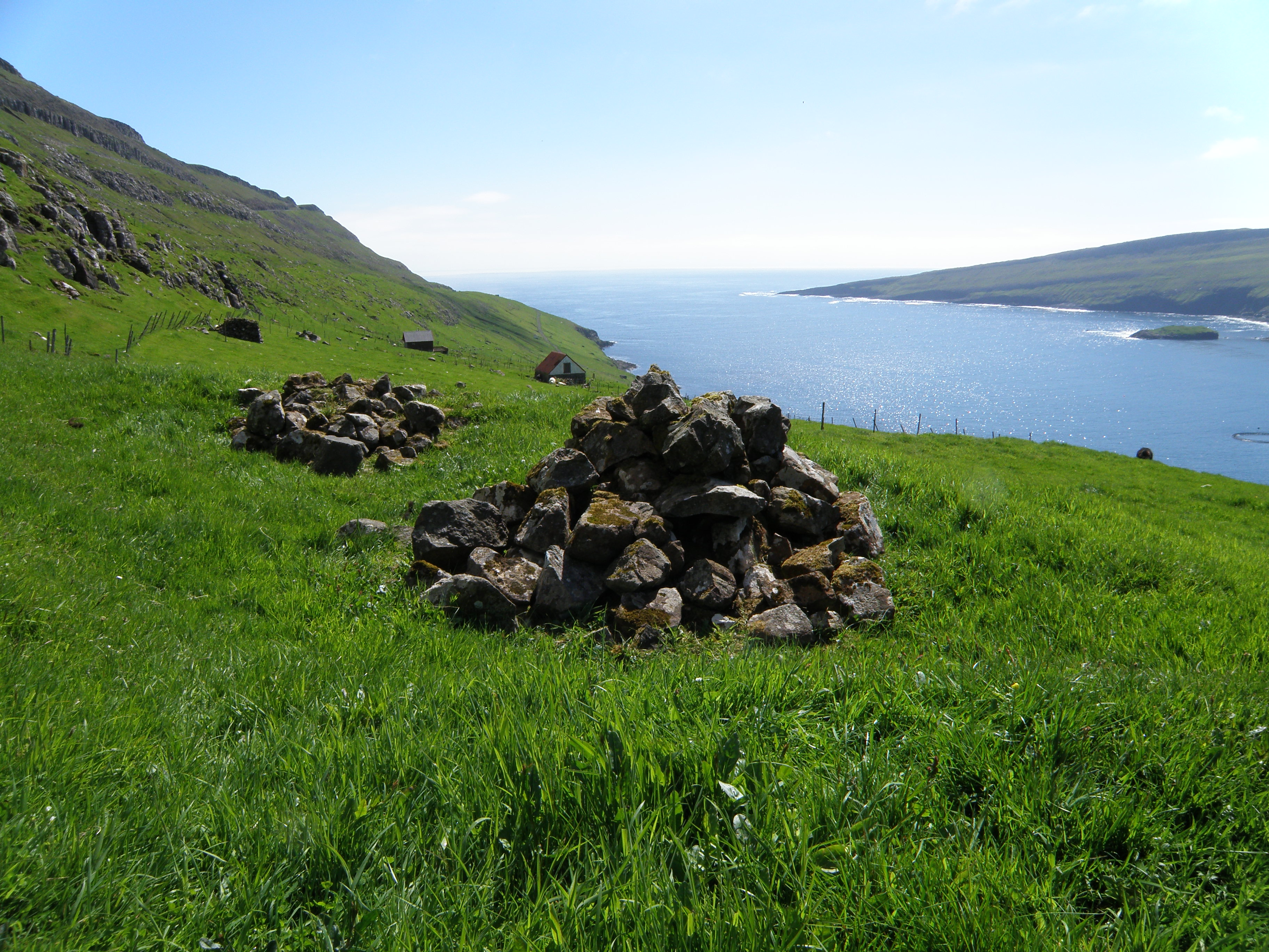 View to the fjord of Hov, Hovsfjørður in Suðuroy, Faroe Islands. The two piles of stones show where the grave of Viking Chieftain Havgrímur is. It is said, that his horse is buried under the cairn which is in the foreground on this photo and that Havgrímur is buried under the cairn just next to the other one. Havgrímur lived in the 10th century, he was killed on the island Stóra Dímun around year 970 according to Føroyingasøga. The islet on this photo is called Hovshólmur, it belongs to the village Porkeri, which is just south of the mountain Kambur. The village Hov is below this hill, but it is not visible on this photo. The population of Hov is around 100. The old road Hov-Øravík is just above this place and goes around the mountain to the left, just next to the road just before the road turns around the mountain there are some curious basalt formations. The road is called "Vegurin um Hovsegg" in Faroese. This photo was taken on 19 June 2010 in the morning. Føroyskt: Her er víkingagrøvin hjá Havrími úr Hovi, sum verður umrøddur í Føroyingasøgu. Havgrímur ráddi yvir helminginum av Føroyum tá, verður sagt í Føroyingasøguni. Havgrímur varð dripin á Stóru Dímun í 970. Hann og hestur hansara eru grivnir her undir hesum varðunum, sigst. Hesturin er undir varðanum sum er nærmastur á hesi myndini, meðan Havgrímur liggur undir hinum varðanum. Á myndini sæst útsýnið yvir Hovsfjørð, fjallið Kambur, sum er millum Hov og Porkeri. Hólmurin á myndini er Hovshólmur, sum hoyrir til Porkeri.